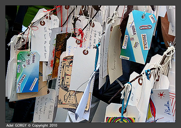 Cards created by the associate members of IMMAGINE&POESIA for Yoko Ono's Wish Tree at the Museum of Modern Art, New York